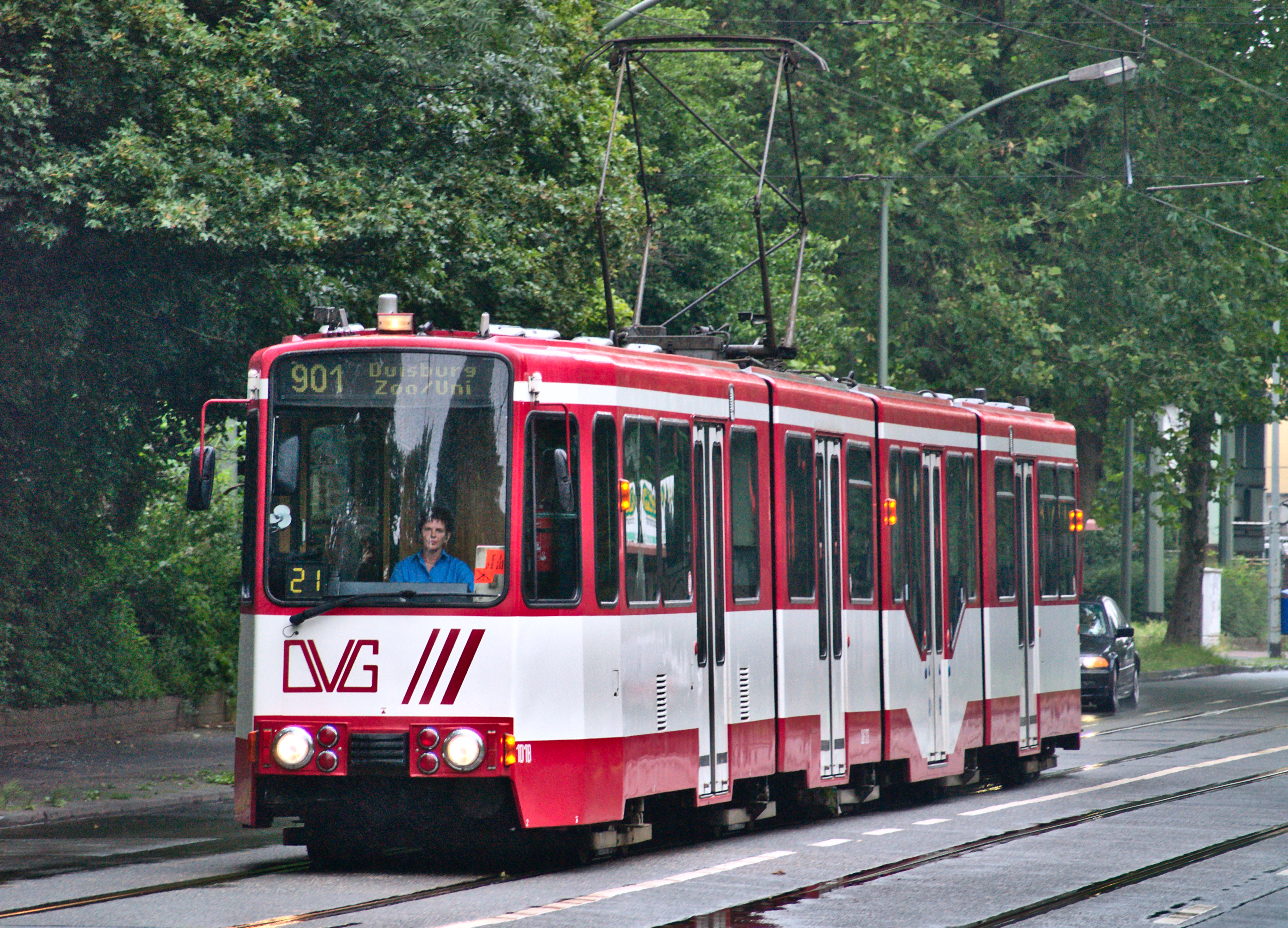 Car #1018 of Duisburg Transport (DVG), type GT10 NC-DU, on route 901 (Laar → Duisburg University / Zoo) in Friedrich Ebert street, Ruhrort district, City of Duisburg